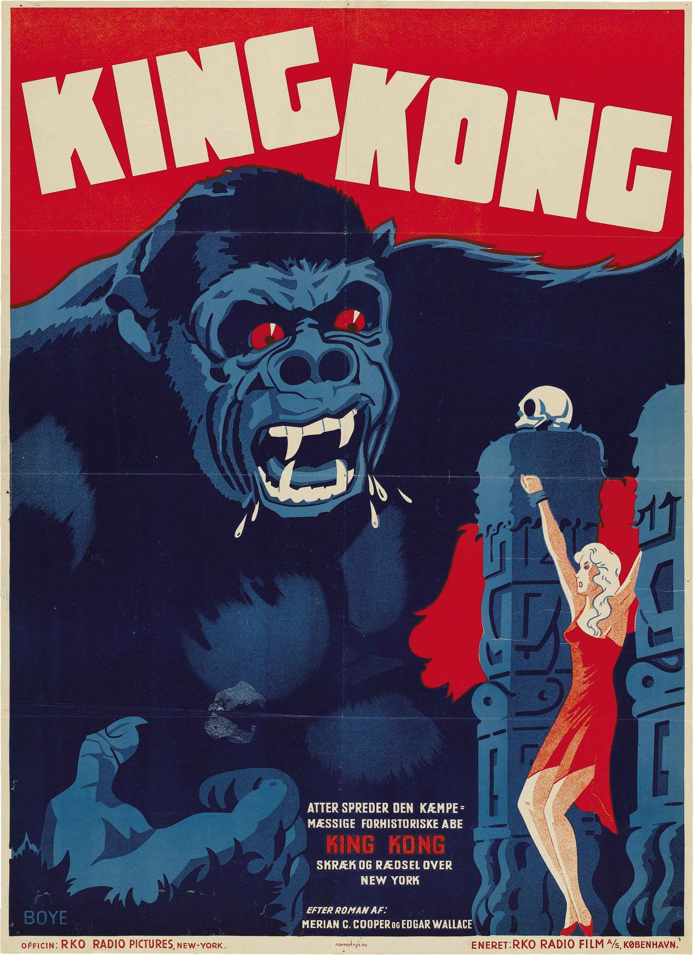 Danish movie poster for King Kong (1933 film)